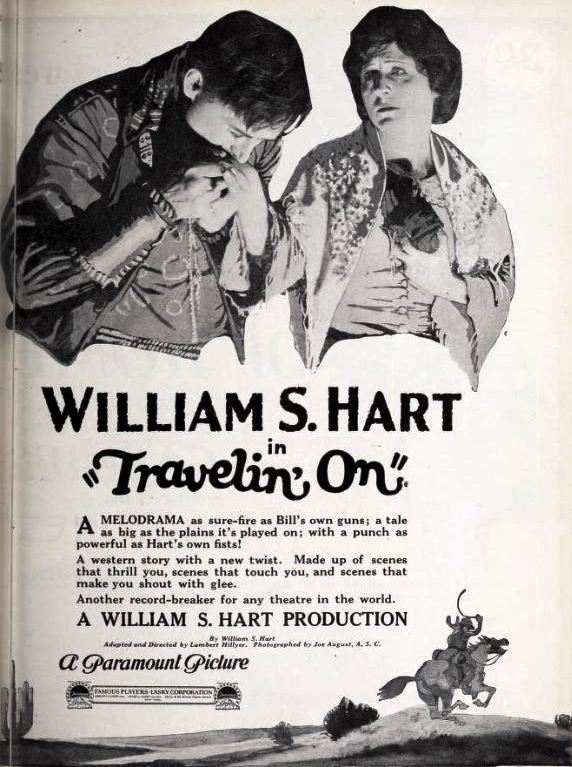 Advertisement for the American western film Travelin' On (1922) with William S. Hart and Ethel Grey Terry, on page 13 of the February 11, 1922 Exhibitors Herald.